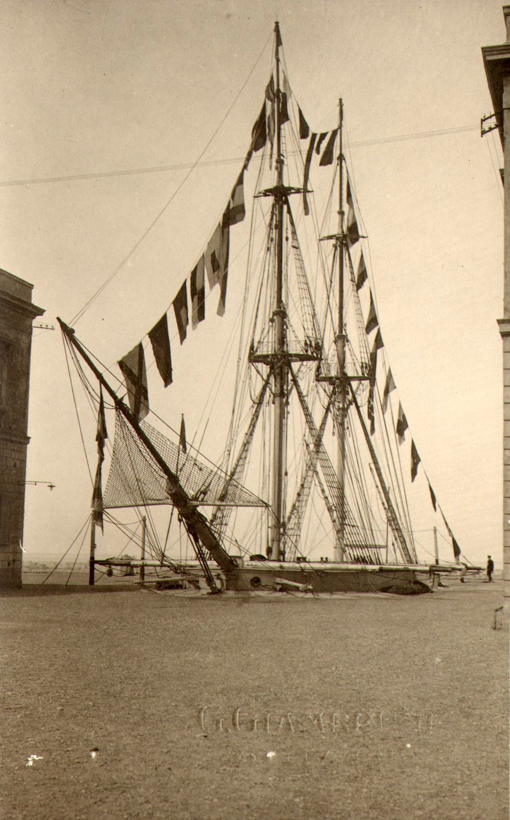 Brigantine for the cadets practice - Livorno Naval Academy. The original picture, scanned by Emiliano Burzagli, belongs to the Private archive of Burzaghi family, Italy.